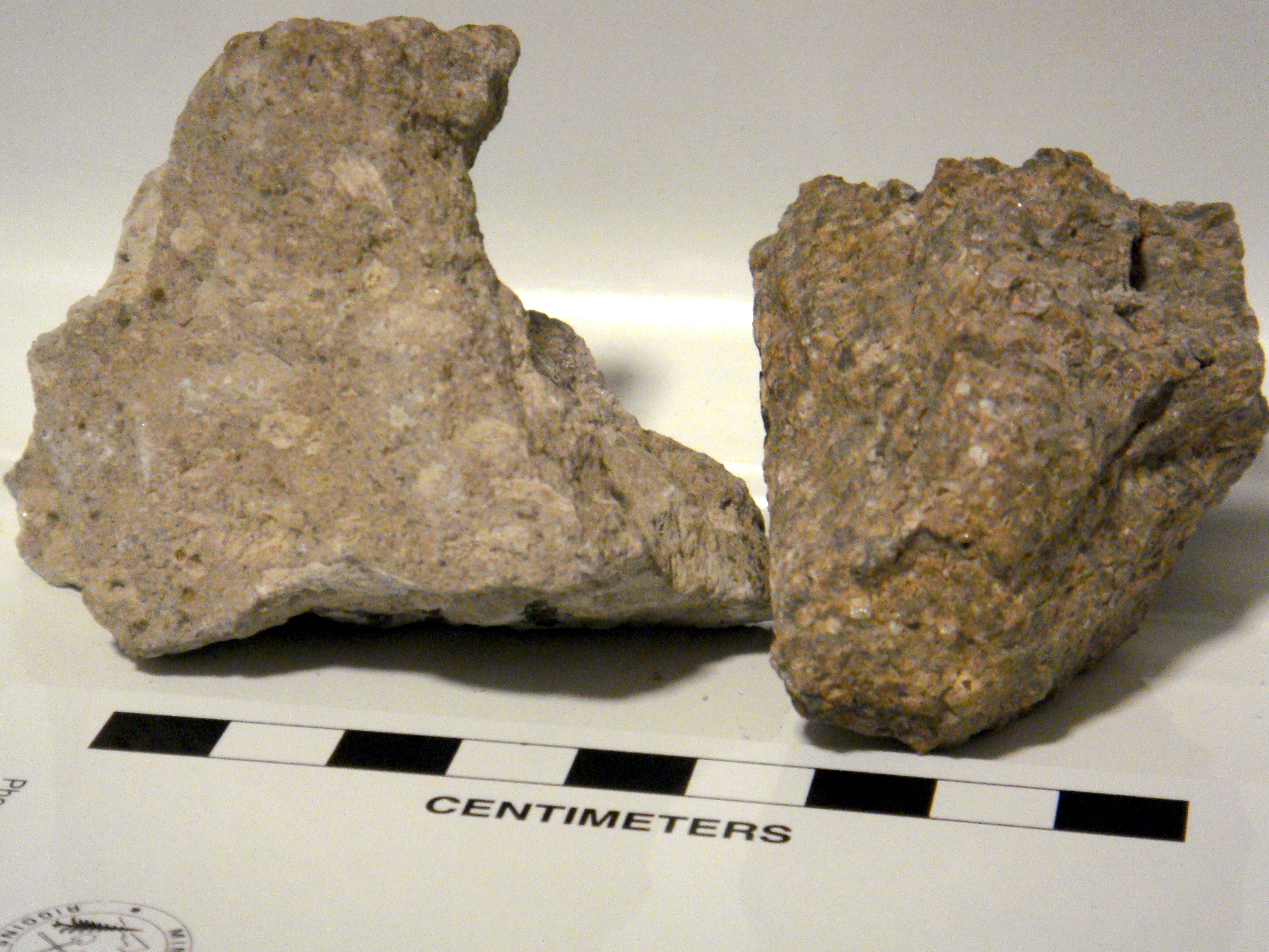 Rocks from the Bishop Tuff, an ignimbrite tuff from Owens River Gorge, California. On the left, a rock from the latter stages of the eruption and the top of the deposit; note large grey, oval pumice fragments. On the right, a rock from the earlier part of the eruption and the bottom of the deposit; note dark, flat fiamme (squished pumice) and apparent increase in phenocrysts, though the compression that caused the fiamme most likely compressed the matrix of the tuff, increasing the apparent abundance of crystals, with respect to the matrix.